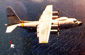 Fulton surface-to-air recovery system on a HC-130